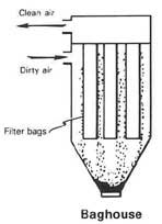 See dust collector